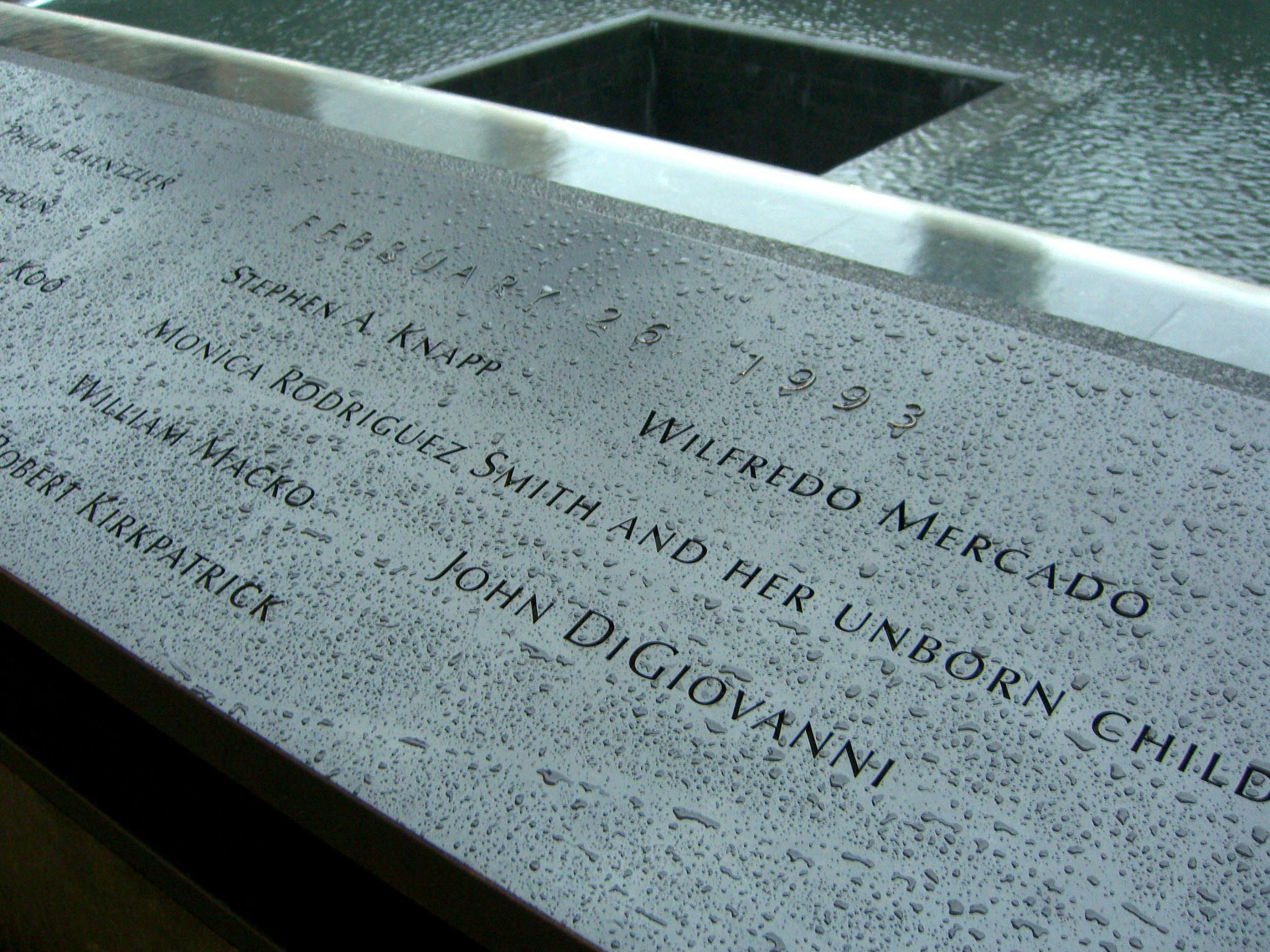 The names of the six victims of the 1993 World Trade Center bombing inscribed on bronze panel N-73 of the North Pool of the National September 11 Memorial in Manhattan, as seen on December 6, 2011. This photo was created by Luigi Novi. If you have any questions, you can contact me by sending me an email or User talk:Nightscream